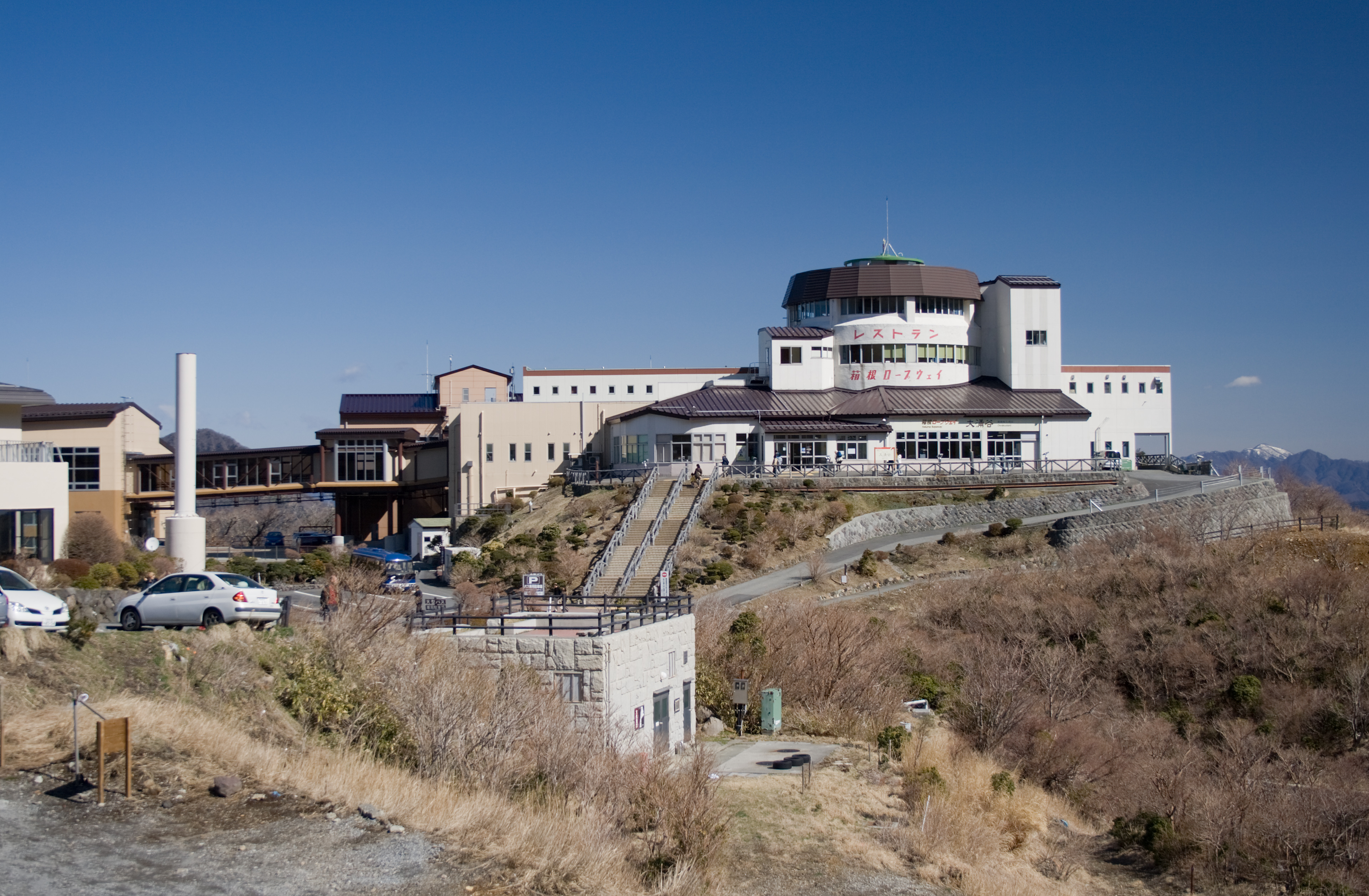 Ōwakudani Station, Hakone, Kanagawa, Japan.